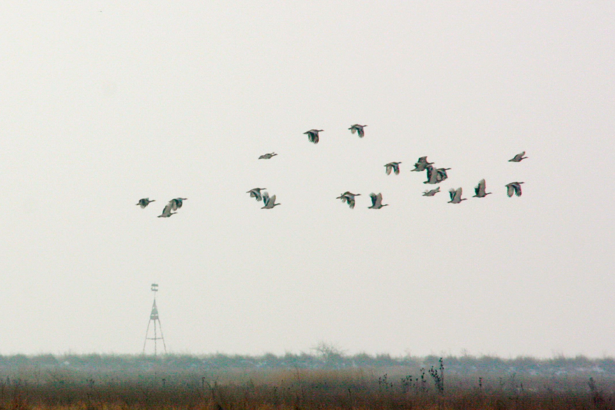 Great Bustards at "Baia Veche", Salonta, Bihor County, Romania